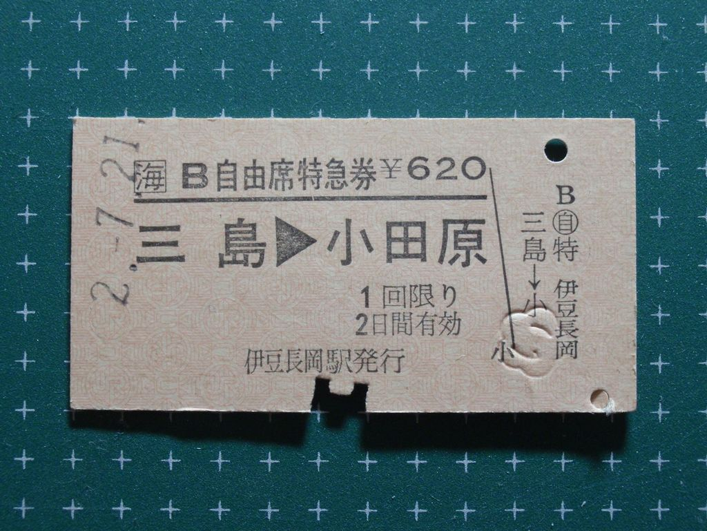 Limited express ticket from Mishima to Odawara (non-reserved seat)